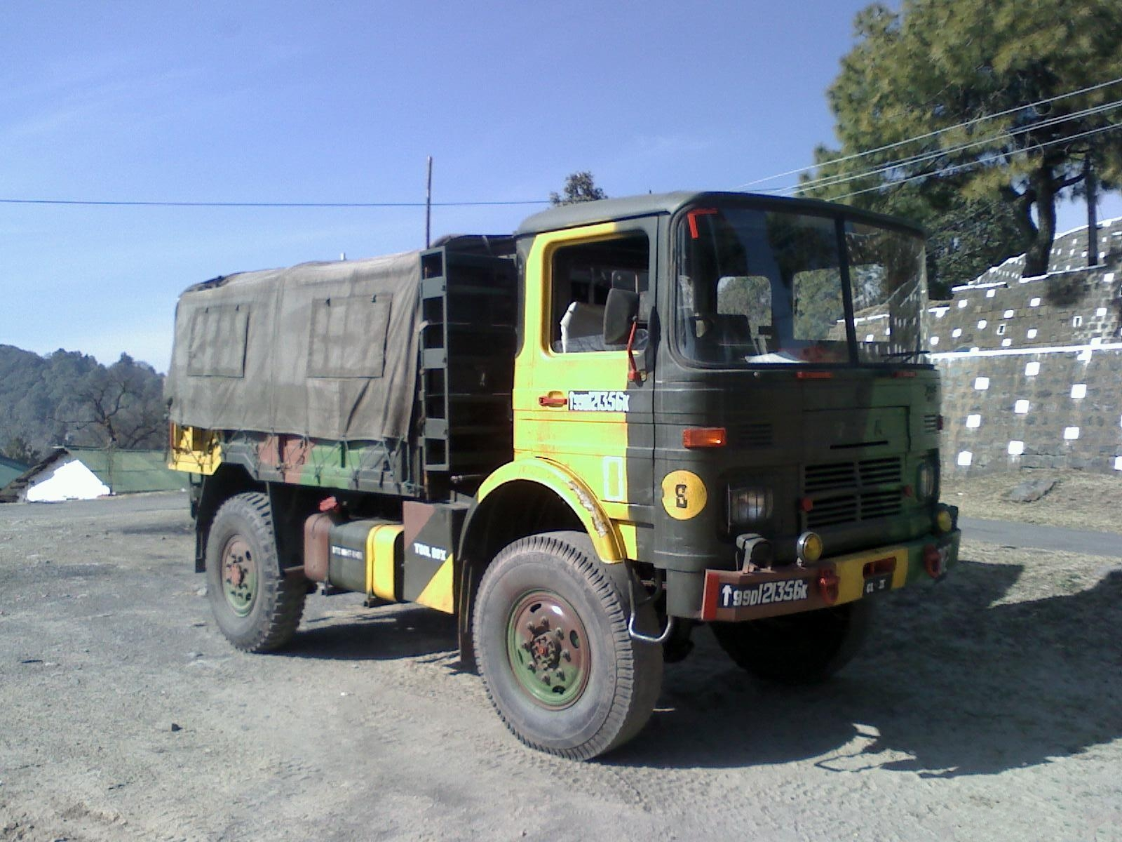 Indian Army`s TATA 2.5 ton Light truck